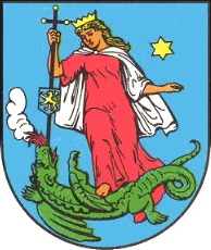 Coat of Arms of Kahla